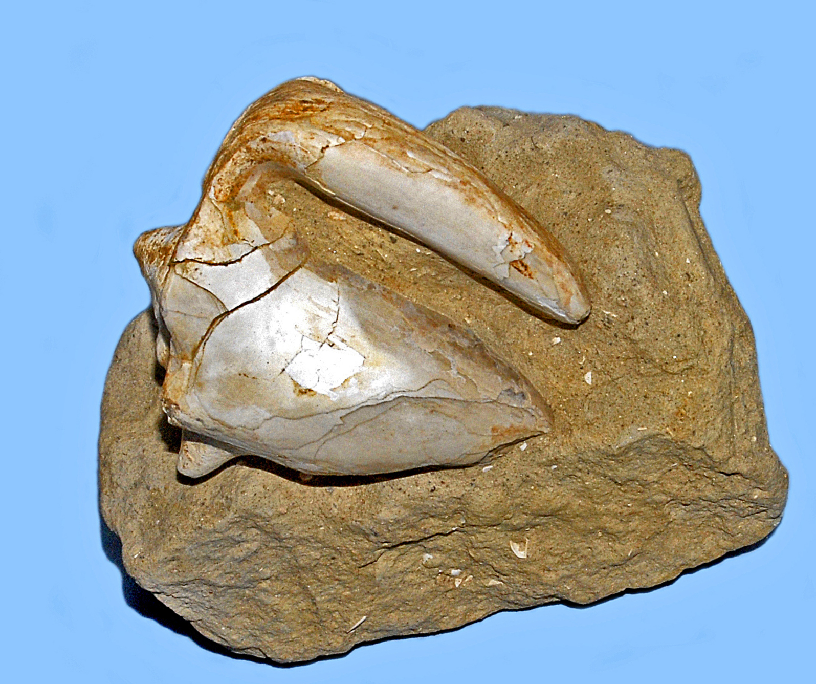 Fossil shell of Strombus coronatus from Pliocene of Italy, on display at the Museo Paleontologico Giulio Maini, Ovada